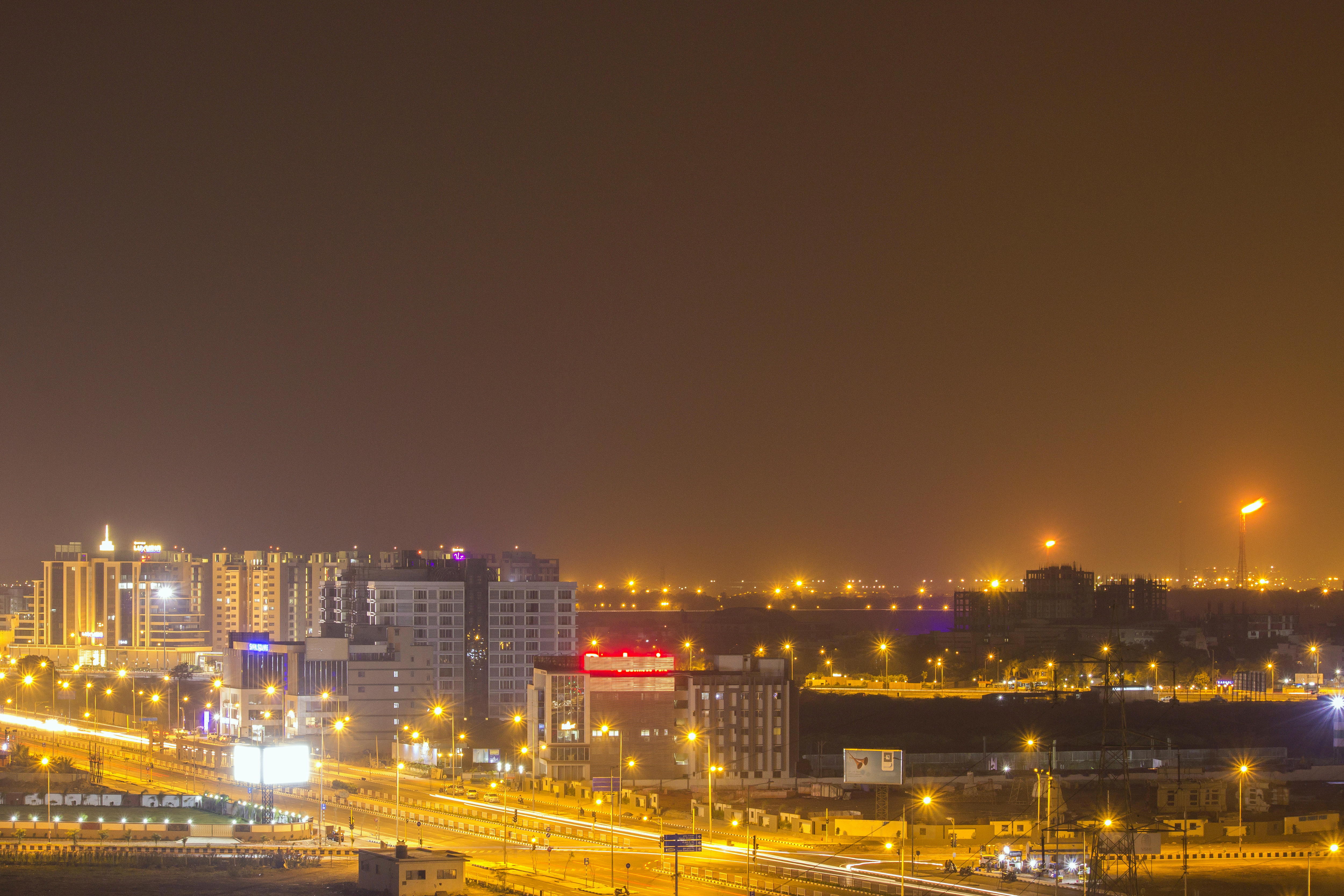 University Road Surat